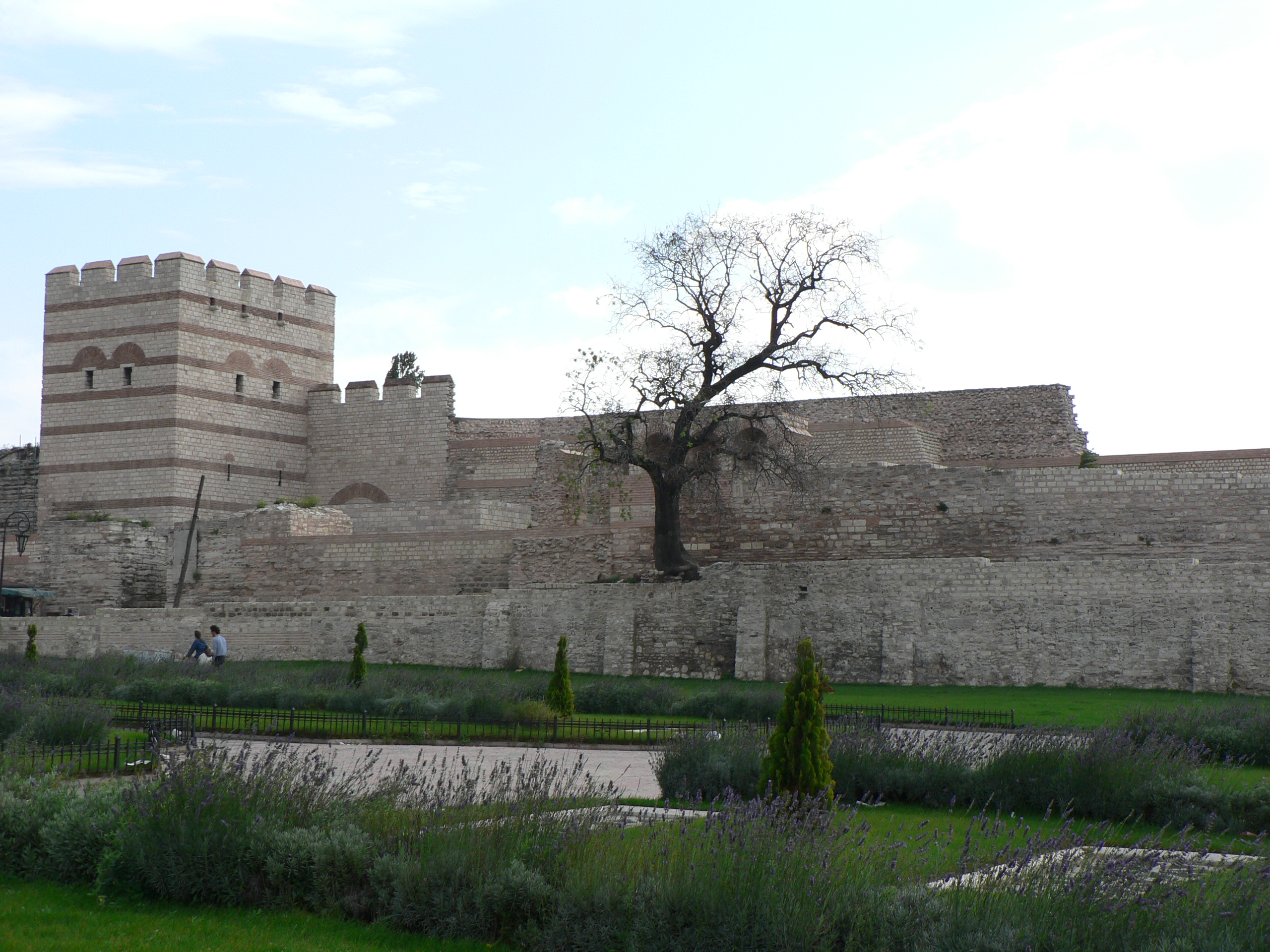 Gate of St. Romanus on the Theodosian Walls of Constantinople (Istanbul).